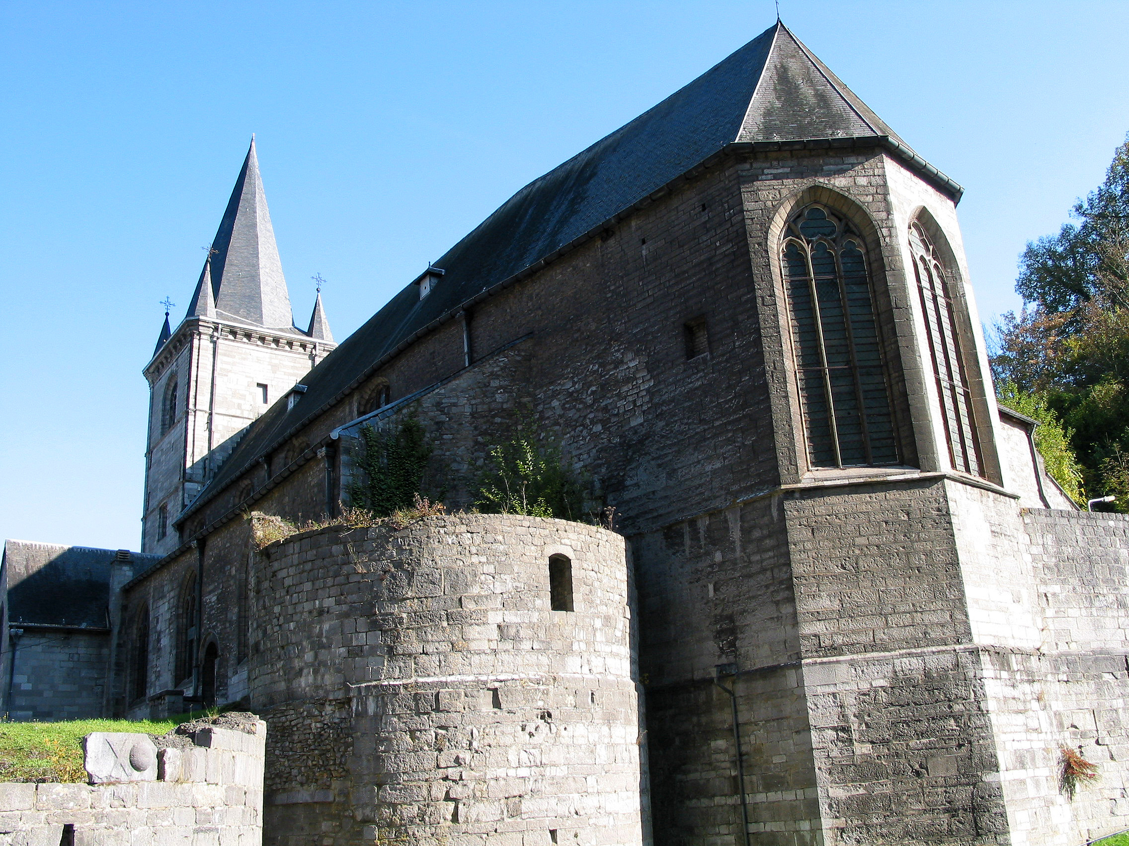 Bouvignes-sur-Meuse (Belgium) : the church of Saint Lambert (XIII-XXth centuries).